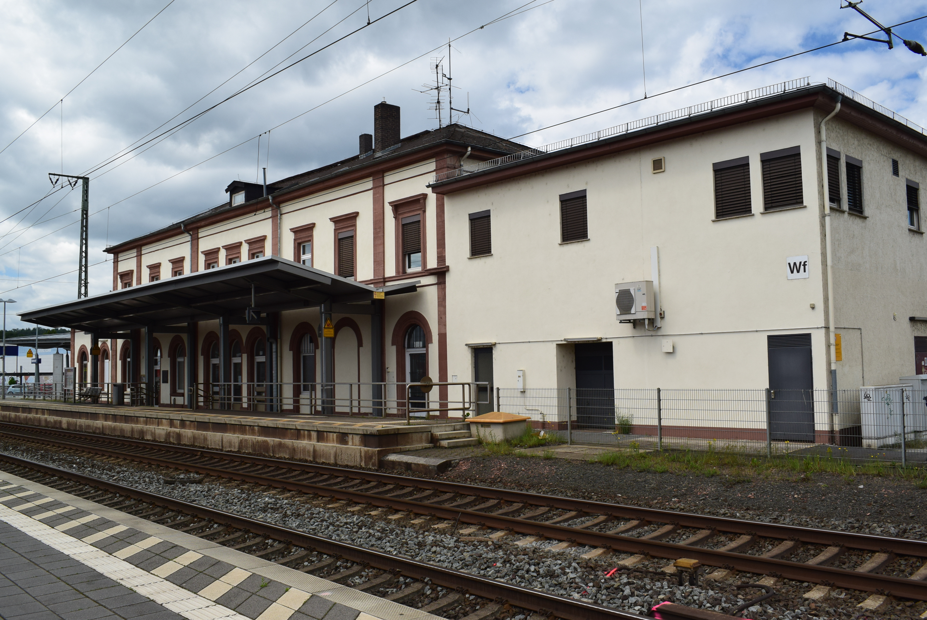 Train station Wächtersbach